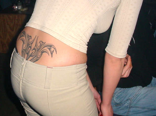 Abstract tattoo (aka tramp stamp) on lower back.